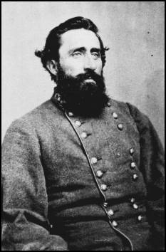 William B. Bate as general officer in the Confederate States Army during the American Civil War.